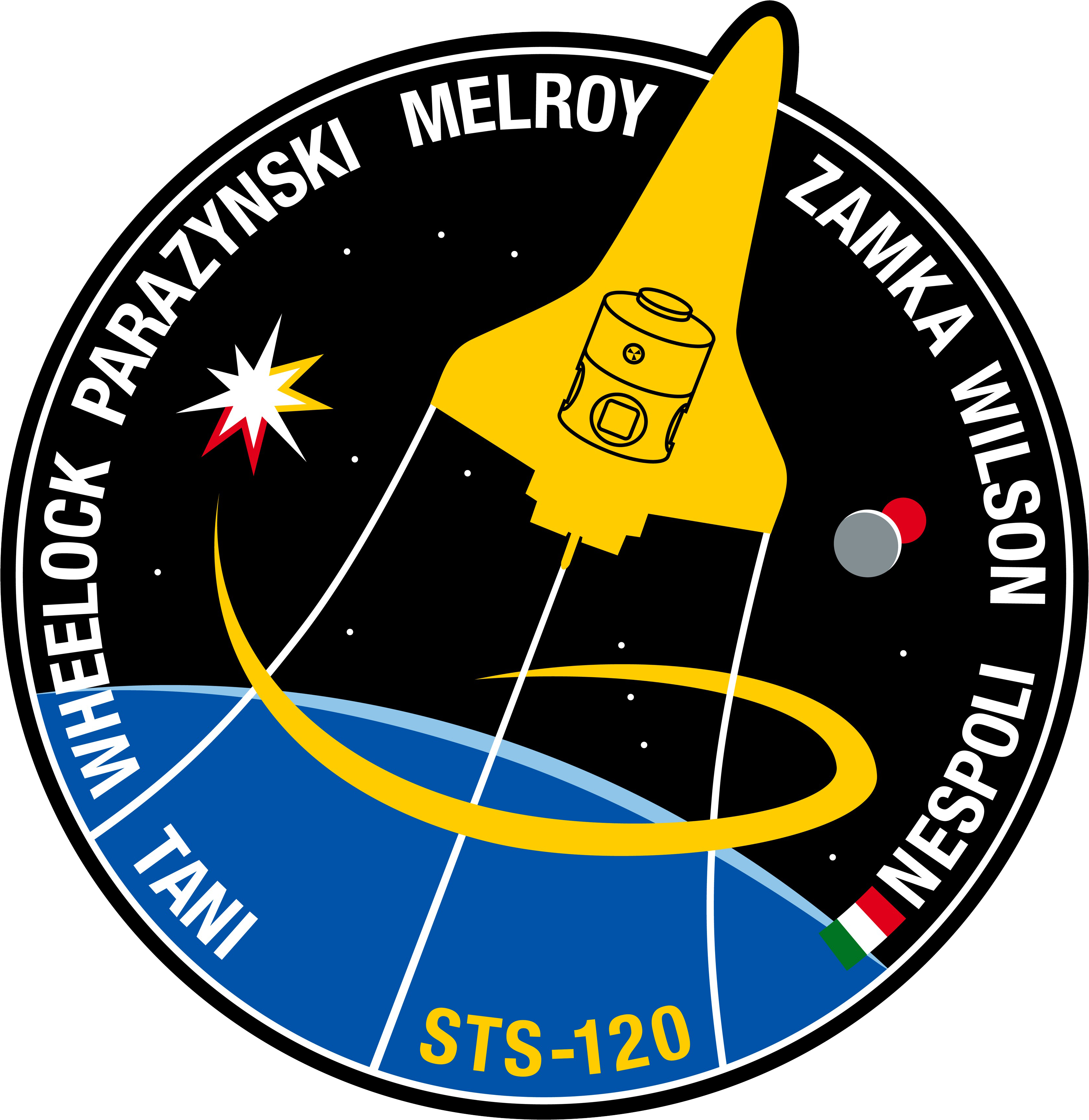 STS120-S-001 (February 2007) --- The STS-120 patch reflects the role of the mission in the future of the space program. The shuttle payload bay carries Node 2, the doorway to the future international laboratory elements on the International Space Station. On the left the star represents the International Space Station; the red colored points represent the current location of the P6 solar array, furled and awaiting relocation when the crew arrives. During the mission, the crew will move P6 to its final home at the end of the port truss. The gold points represent the P6 solar array in its new location, unfurled and producing power for science and life support. On the right, the moon and Mars can be seen representing the future of NASA. The constellation Orion rises in the background, symbolizing NASA's new exploration vehicle. Through all, the shuttle rises up and away, leading the way to the future. The NASA insignia design for Shuttle flights is reserved for use by the astronauts and for other official use as the NASA Administrator may authorize. Public availability has been approved only in the form of illustrations by the various news media. When and if there is any change in this policy, which is not anticipated, it will be publicly announced.